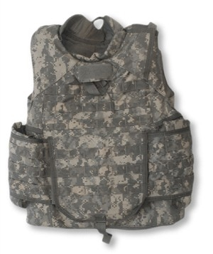 Improved Outer Tactical Vest (IOTV) The new Improved Outer Tactical Vest, three pounds lighter and more protective than the Outer Tactical Vest will soon be issued to Soldiers deploying to Iraq and Afghanistan.